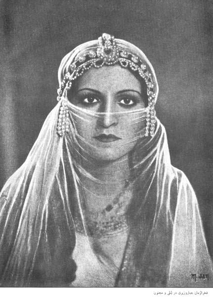 Fakhrozzaman jabbar vaziri, Iranian pioneering actress manily famous for acting in three Iranian films directed by Abdolhossein Sepanta which are Leili and Majnoon, Shirin and Farhad and Black Eyes.